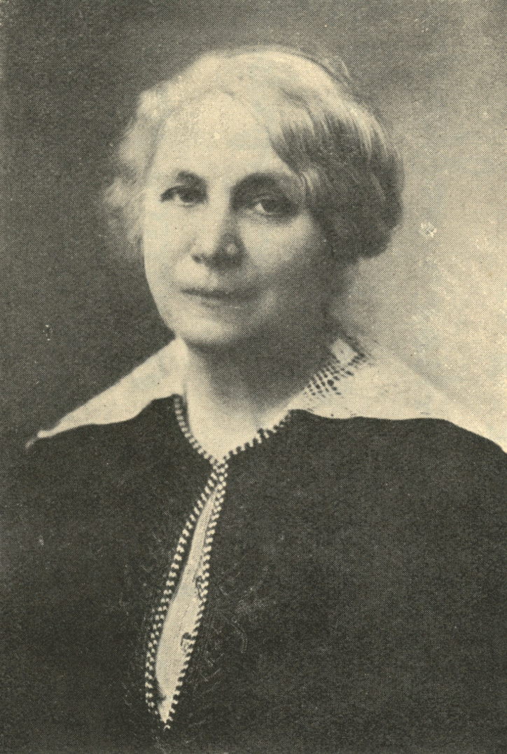 Ekaterina Karavelova (woman activist, author and translator), one of the most remarkable Bulgarian women at the end of 19 and the first half of 20 c., wife of Petko Karavelov (1843 - 1903) who was a leading Bulgarian liberal politician who served as Prime Minister on four occasions.